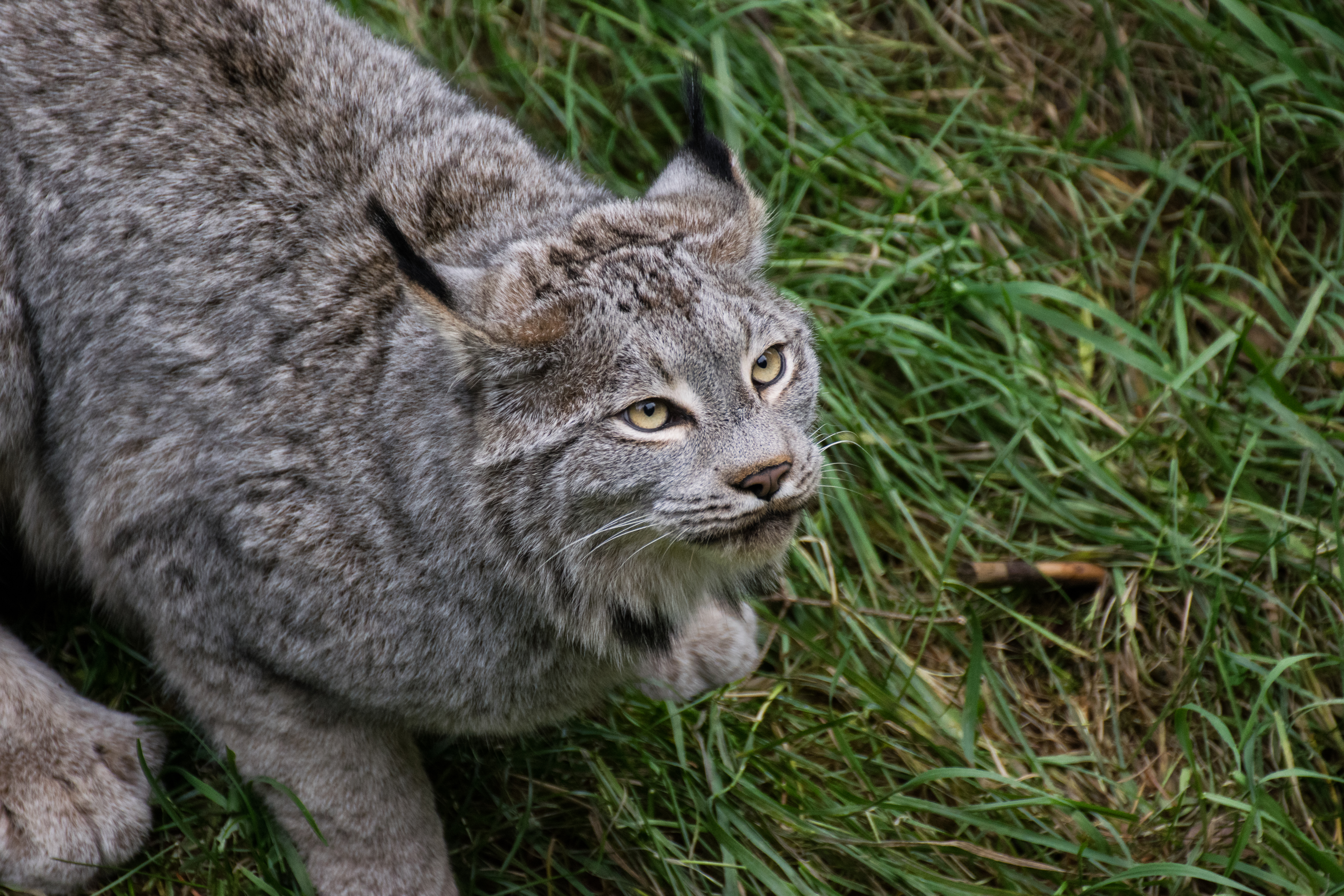 A Canada lynx at the Wild Zoo of St-Félicien (Quebec, Canada).